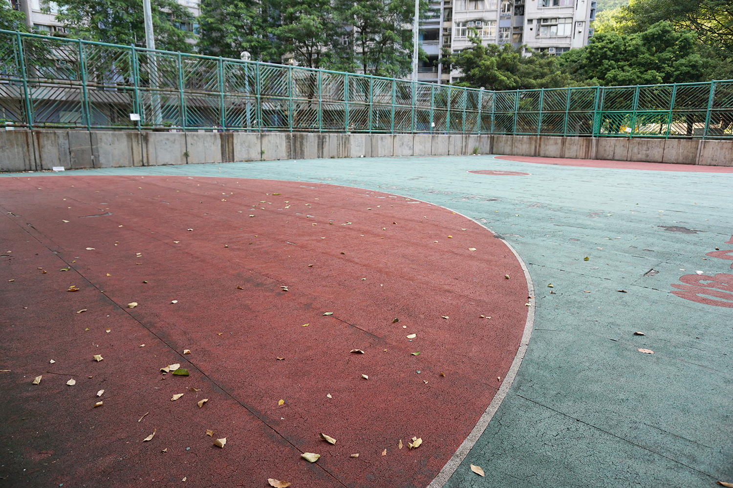 Fu Heng Estate in Tai Po, Hong Kong.